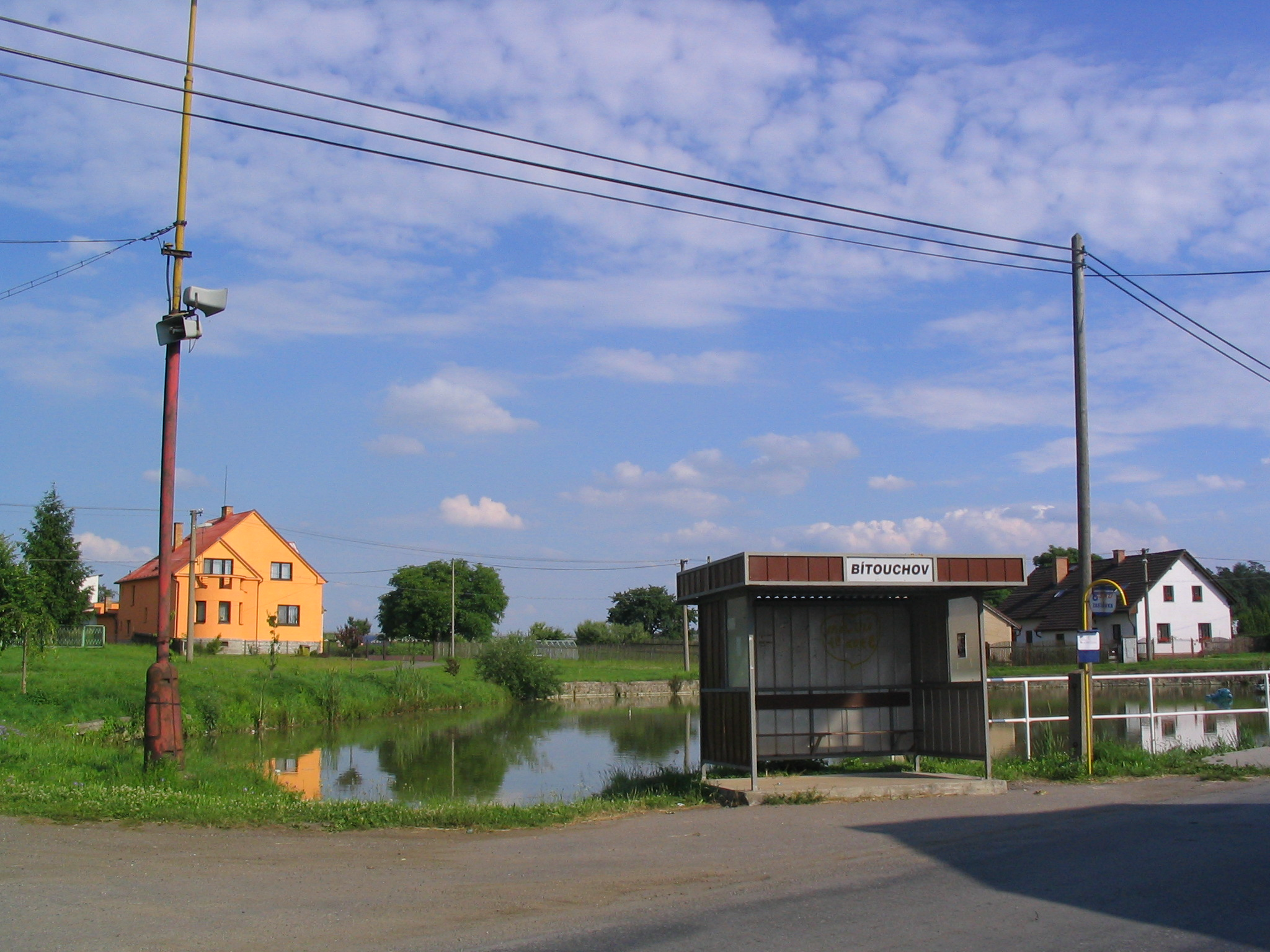 Village of Bítouchov, Czech Republic